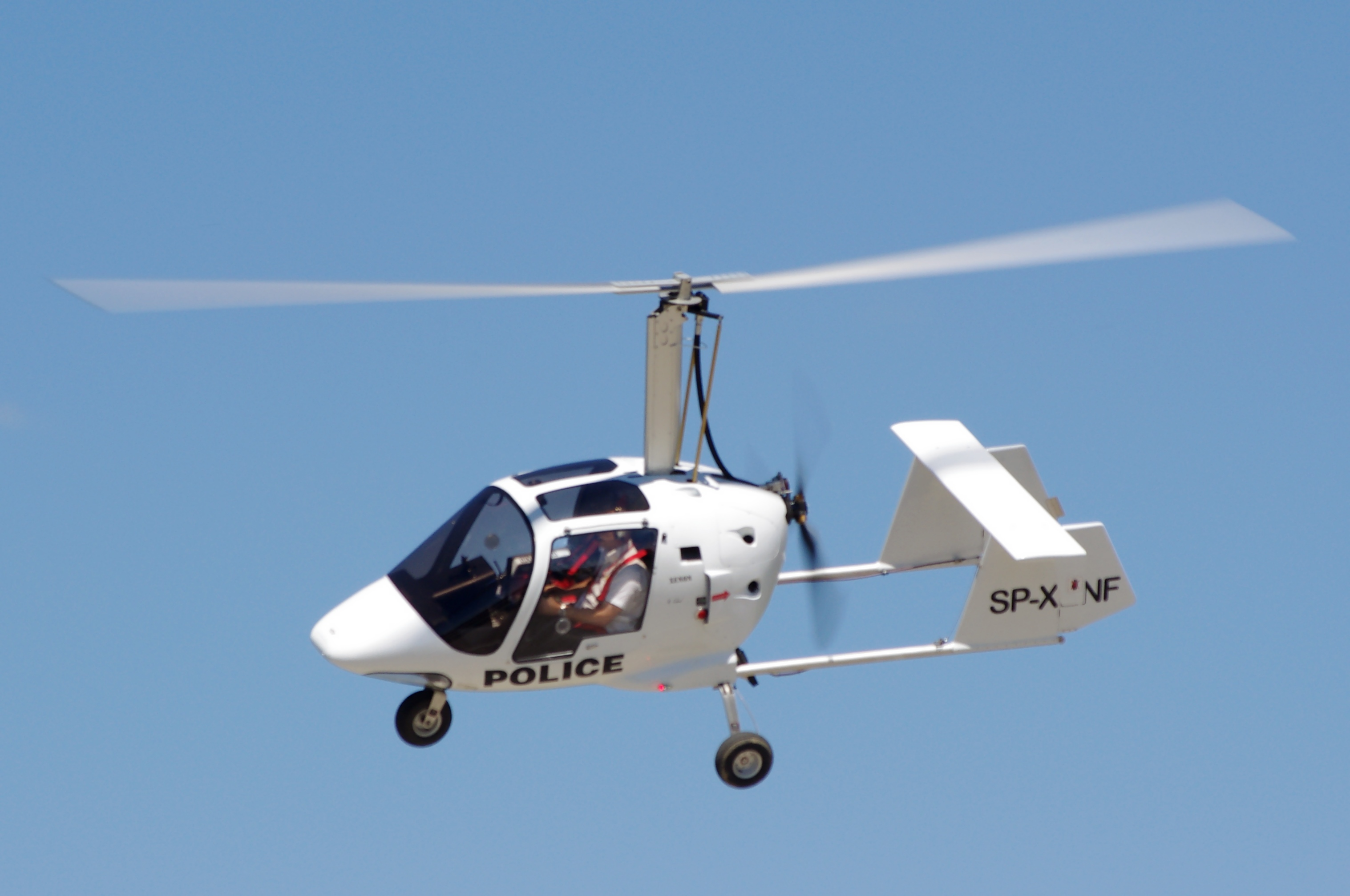 Gyroplane Xenon 2 at Aircraft Picnic in Kraków